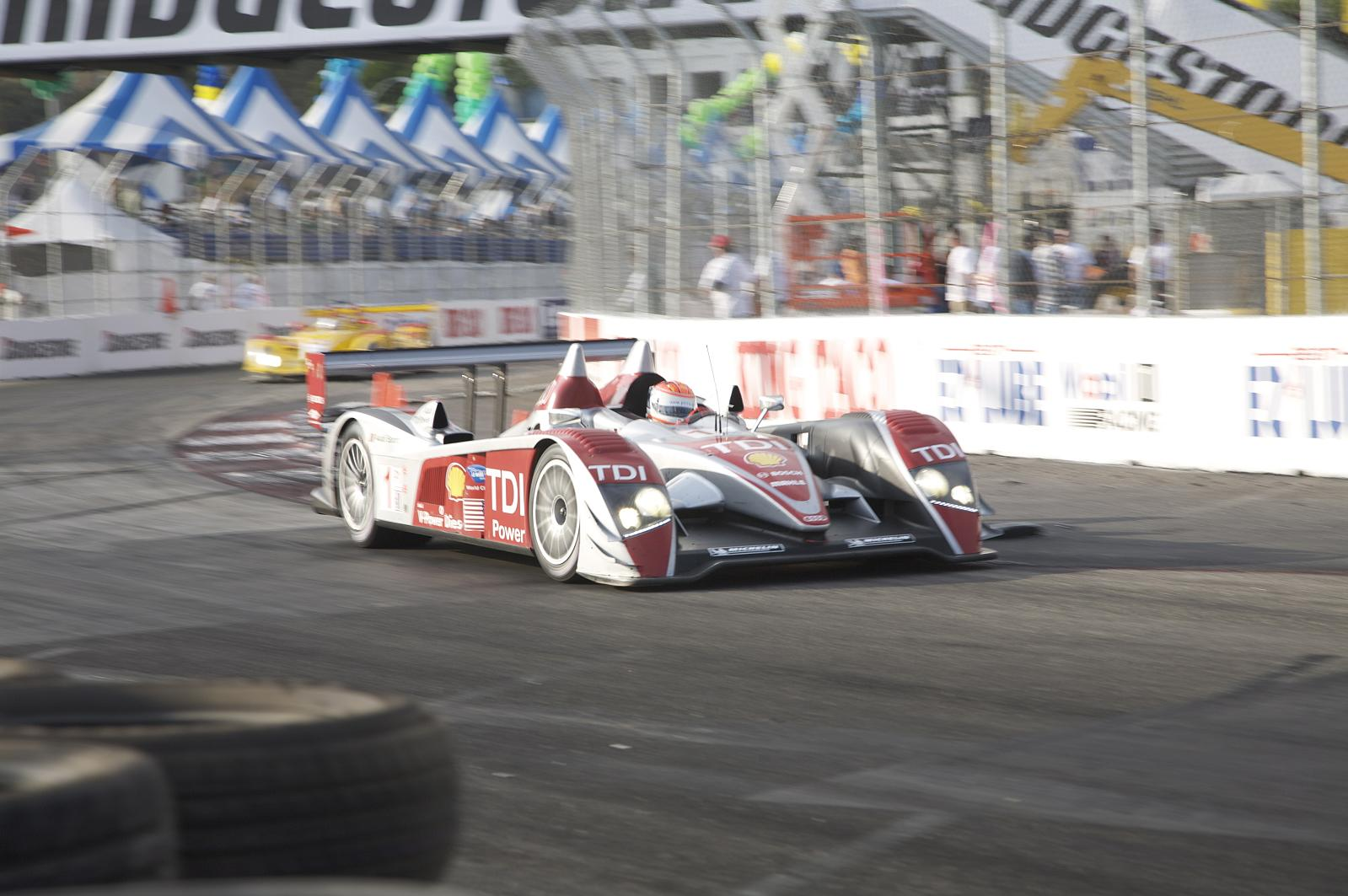 Long Beach Grand Prix ALMS IMSA 2008 Long Beach Grand Prix ALMS IMSA 2008